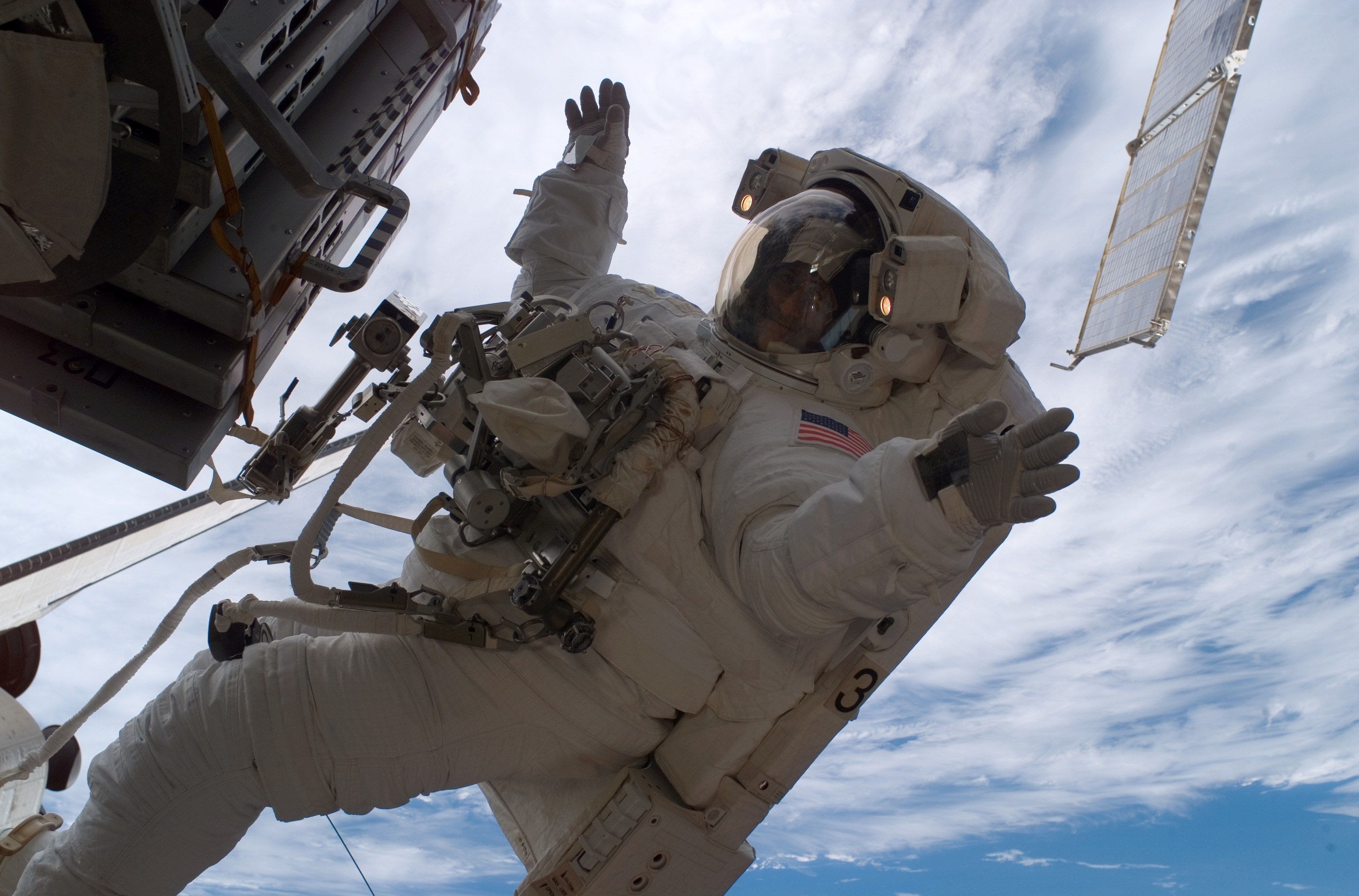 Astronaut Sunita L. Williams, Expedition 14 flight engineer, participates in the mission's third planned session of extravehicular activity (EVA) as construction resumes on the International Space Station. Astronaut Robert L. Curbeam, (out of frame), STS-116 mission specialist, also participated in the 7-hour, 31-minute spacewalk.